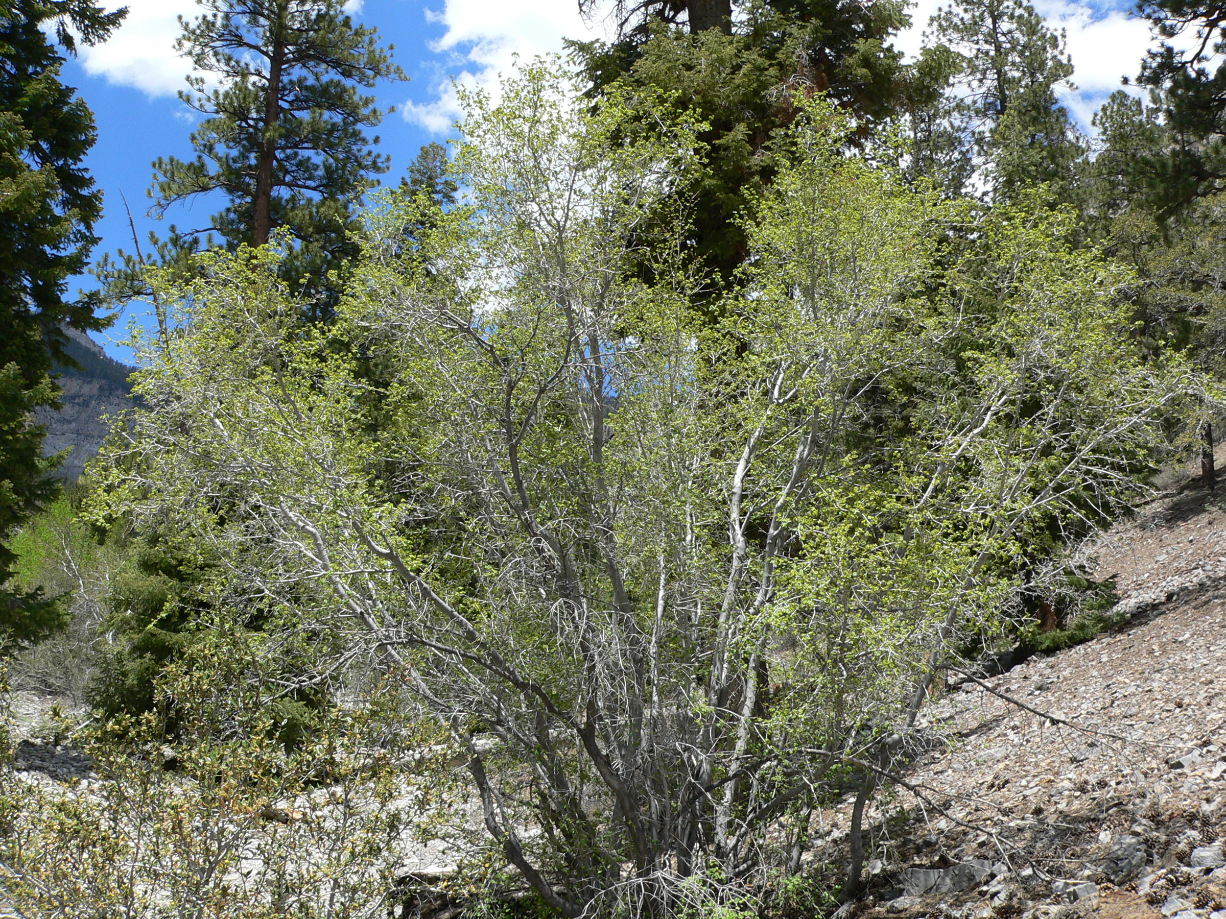 Acer glabrum var. diffusum alongside the Mary Jane Falls trail, Kyle Canyon, Spring Mountains, southern Nevada (elev. about 2500 m)